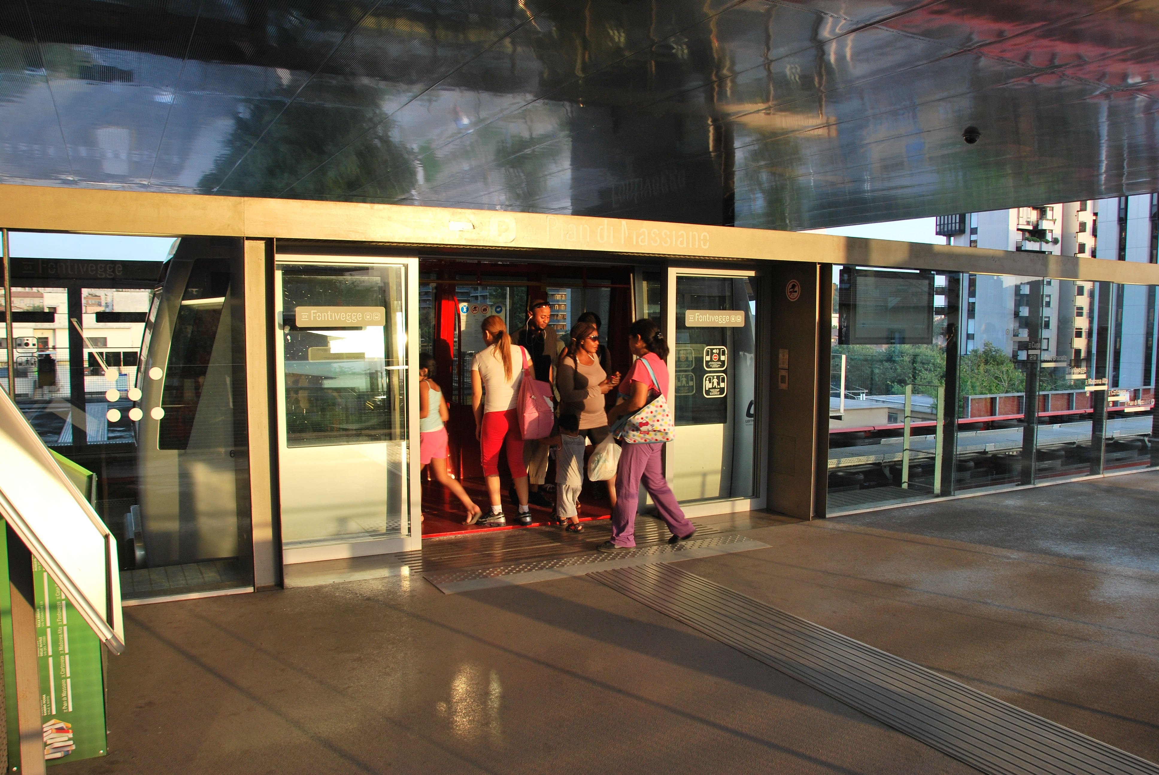 Minimetro in Perugia